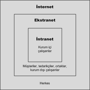 This file depicts the Internet, extranets and intranets and their users.